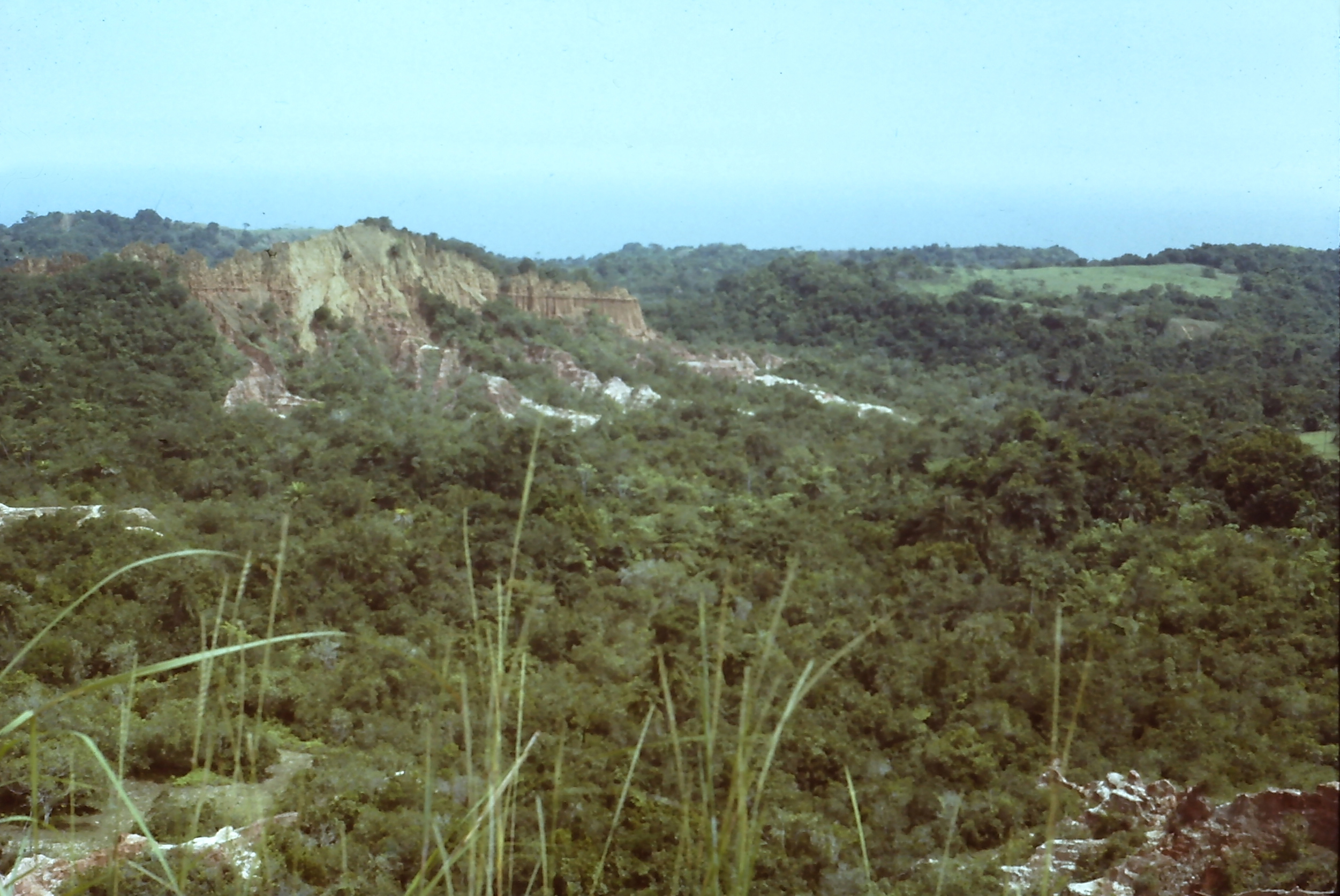 This image was scanned from the original slide taken in 1983 in Diosso Gorge, in the Republic of Congo.